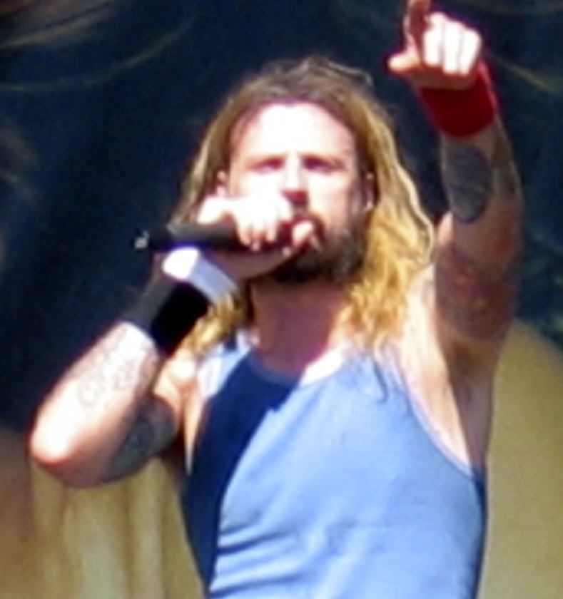 Photo of Rob Zombie at Ozzfest.